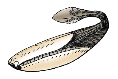 Sacabambaspis. The best known arandaspid from the Ordovician of Bolivia, shows the characteristic, frontally positioned eyes, like car head lamps.